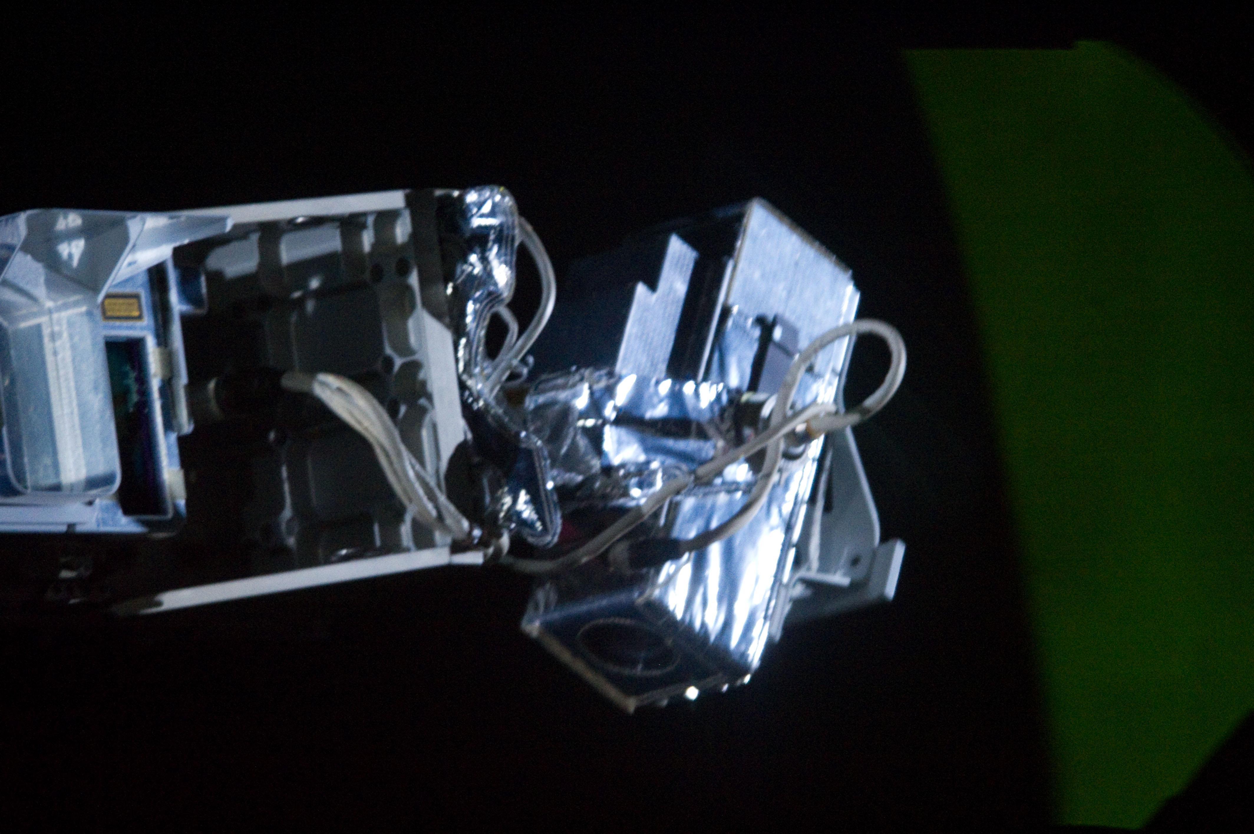 While preparing for the routine inspection of Atlantis' thermal protection system on Flight Day 2, the STS-132 crew discovered a cable was being pinched and preventing the sensor package pan and tilt unit from moving properly. There are alternate sensor packages that do not require the pan and tilt function; and personnel in the Johnson Space Center's Mission Control Center are evaluating those procedures.